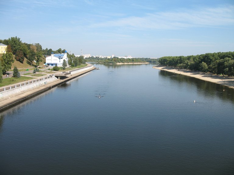 River Soz view2, Gomel, Belarus. Photo taken: late summer 2009